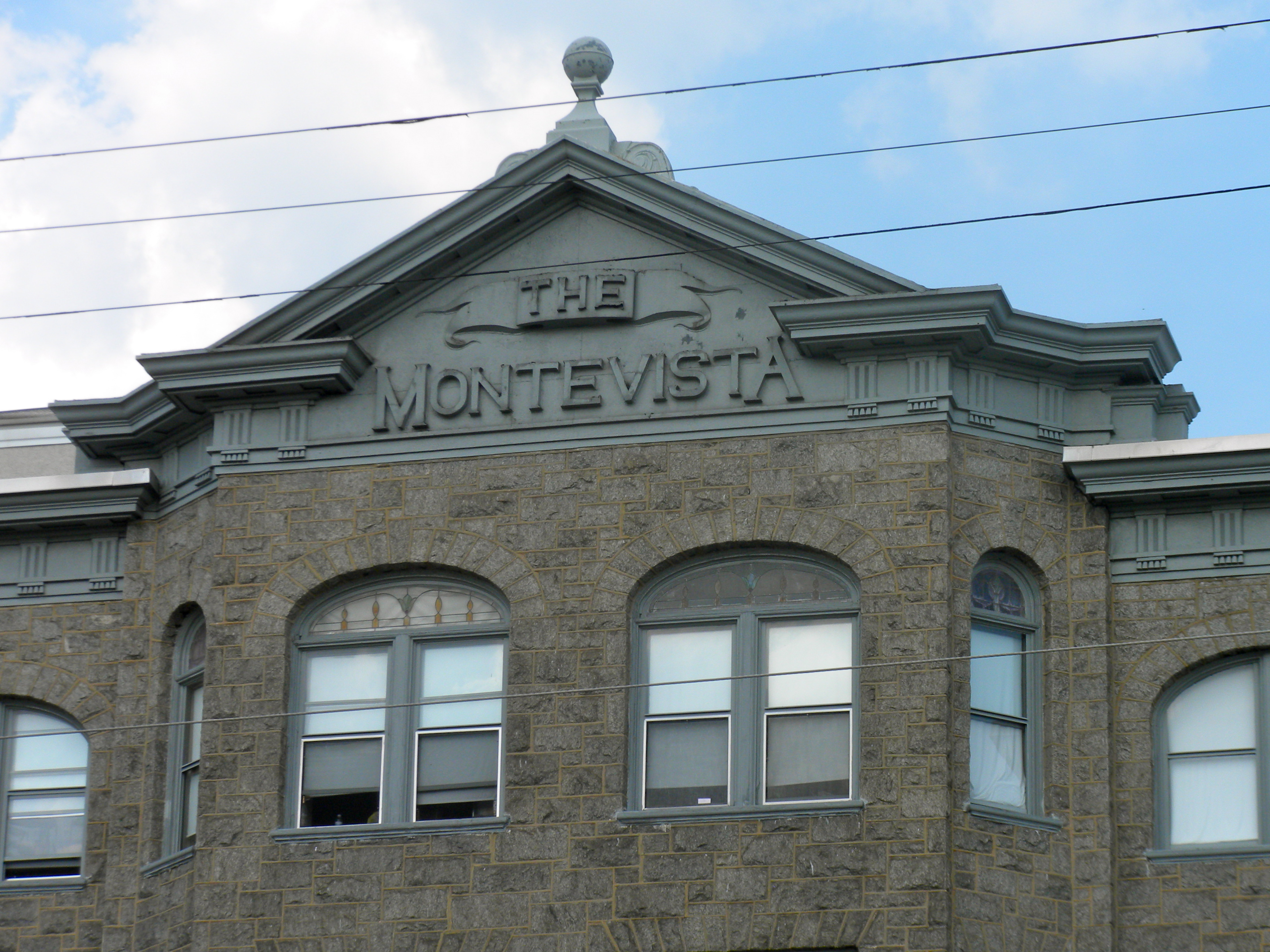 Monte Vista apartment buildings on the NRHP since March 3, 1983. At 917–931 North 63rd Street, 6154–6160 Oxford Street, 6151–6157 Nassau Street in the Overbrook neighborhood of West Philadelphia. This photo is of the central building on 63rd. Note also that in this section of Philadelphia 62nd street has been squeezed out so that the 6150 addresses are right next to the main buildings on 63rd street.